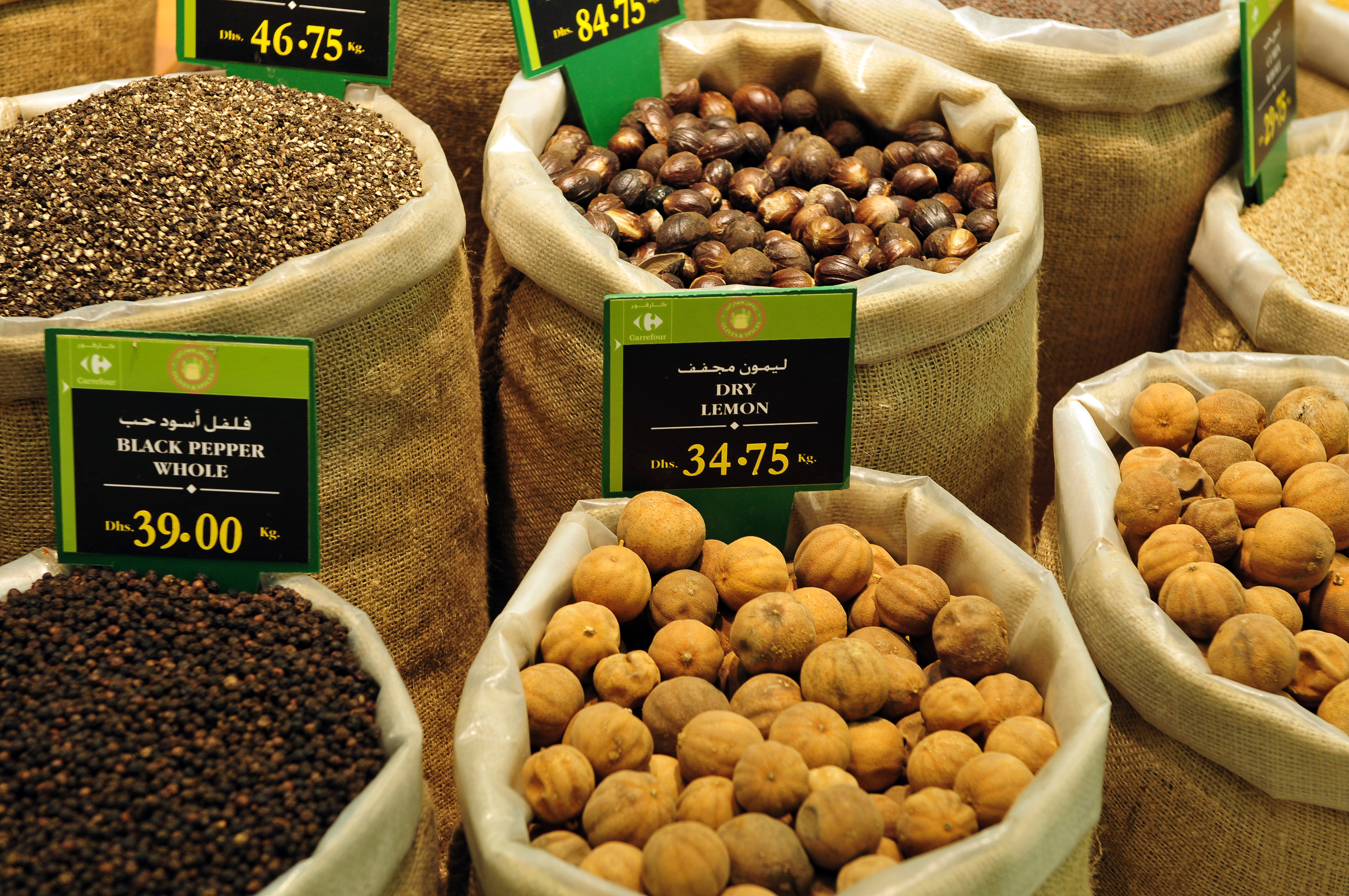 Fruits Abu Dhabi Marina Mall Shopping Center